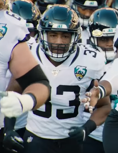 Devine Ozigbo 2019. Image from video Titans Mic'd Up vs. Jaguars (Week 12) | Sounds of the Game, ~ 00:26